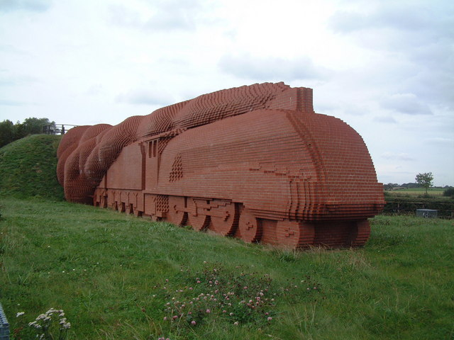 Brick Train Darlington, need more be said?